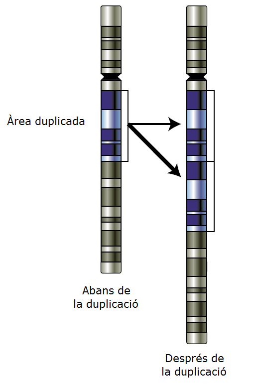 Imatge que mostra el que es produeix durant la duplicació de gens. De [1]